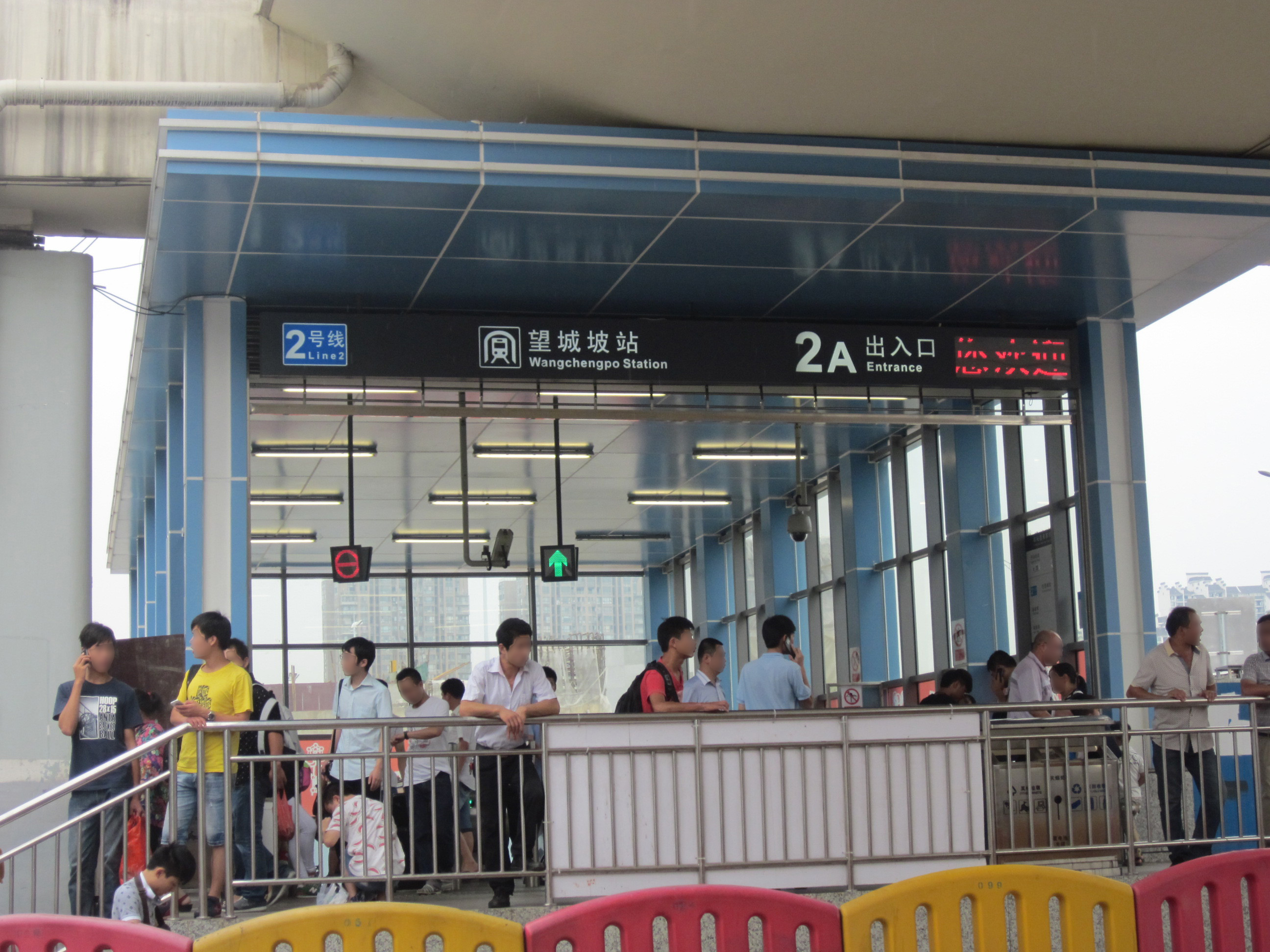 Wangchengpo (Line 2, Changsha Metro).